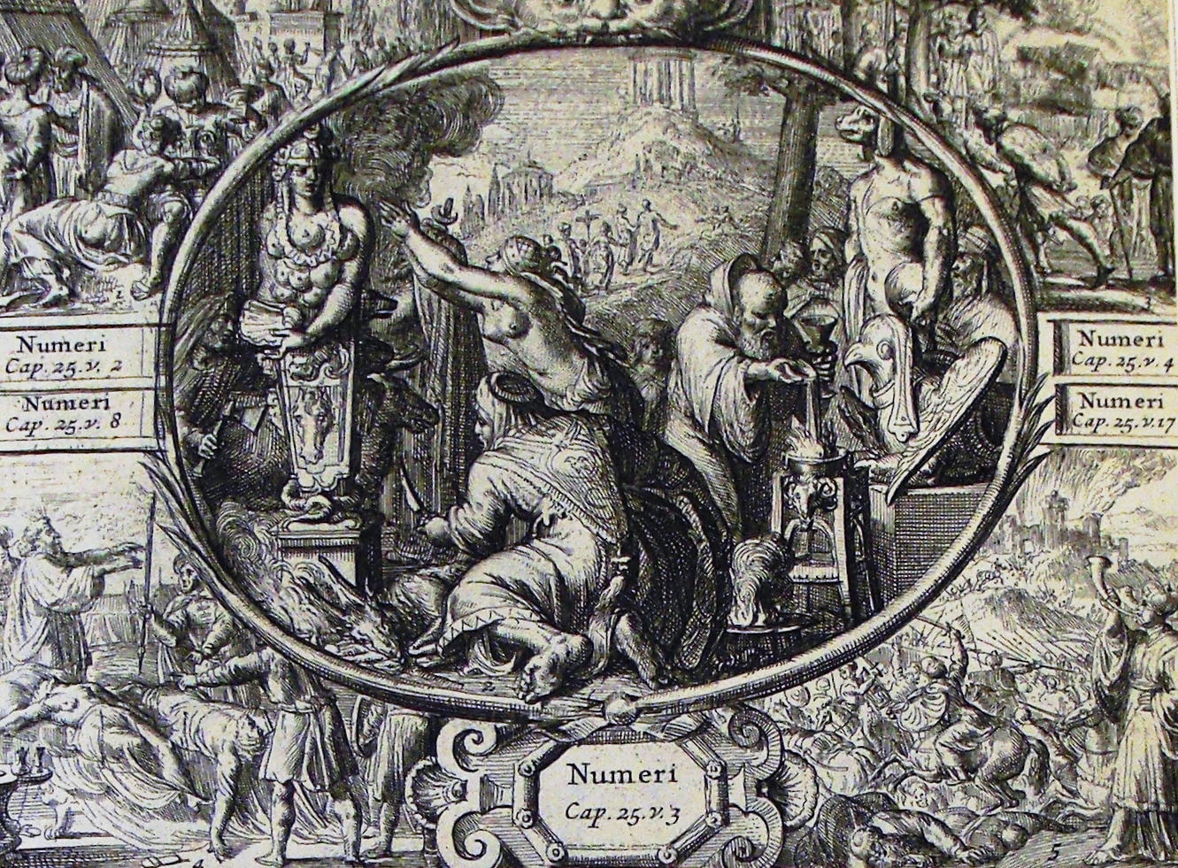 A print from the Phillip Medhurst Collection of Bible illustrations in the possession of Revd. Philip De Vere at St. George’s Court, Kidderminster, England.